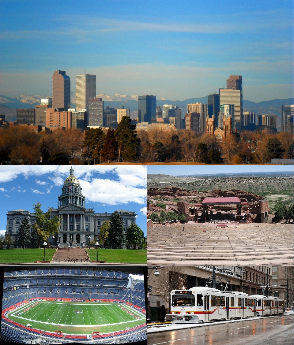 Montage of Denver images.